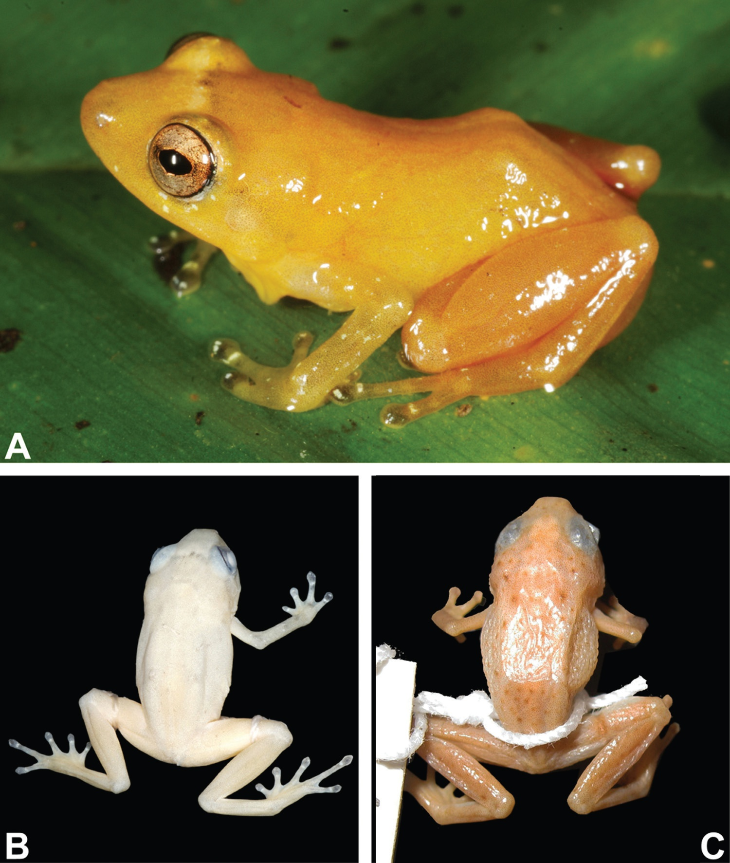 A+B = Diasporus citrinobapheus, C = Diasporus tigrillo